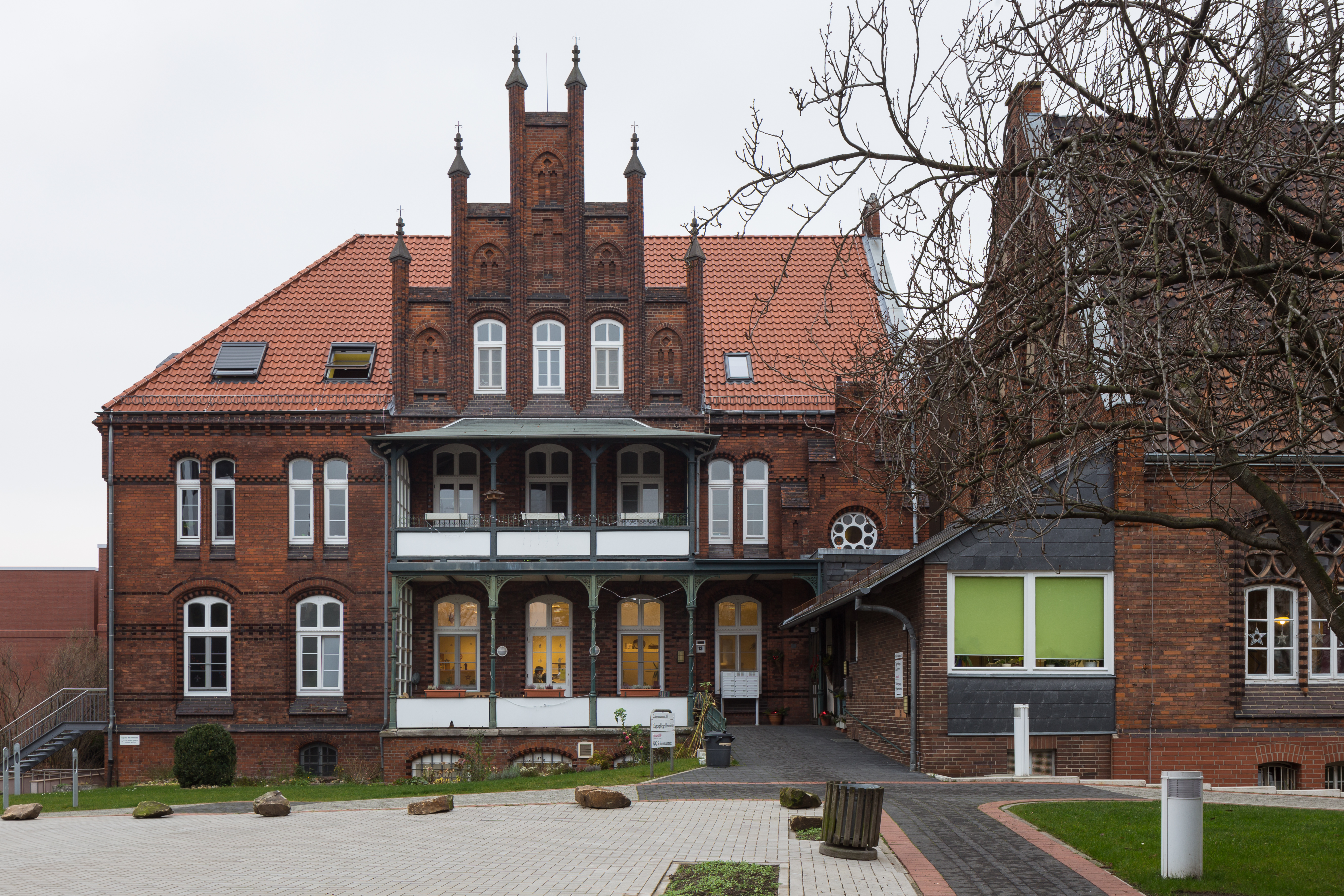 Alt-Bethesda, care home building located at Schwemannstrasse in Kirchrode quarter of Hannover, Germany.